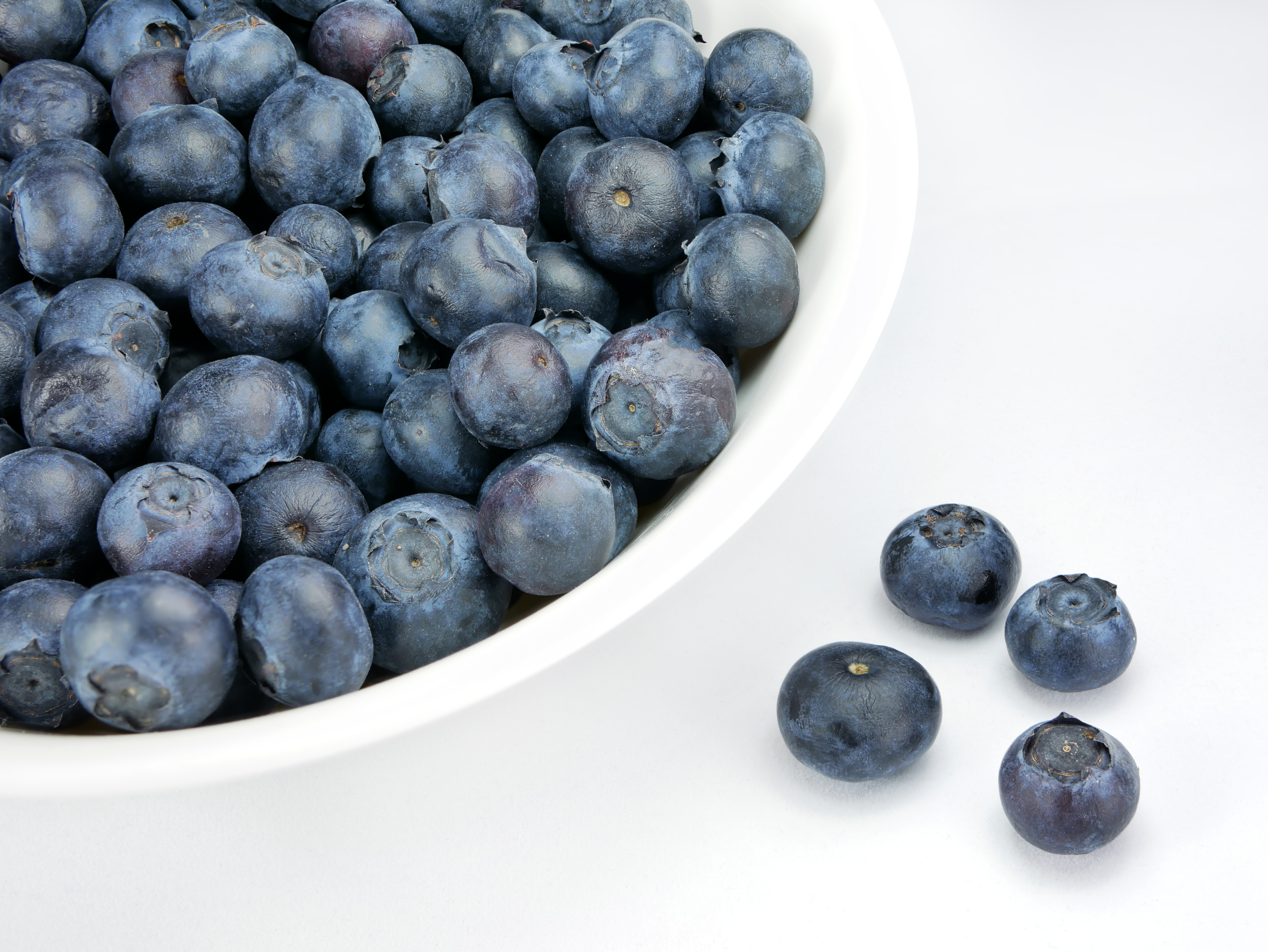 Blueberries from Argentina. This photograph was taken with a Panasonic Lumix DMC-G85/G80